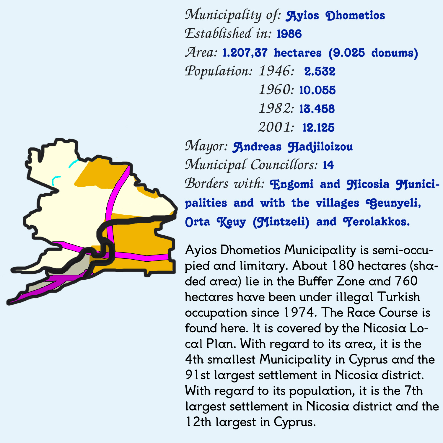 Concise presentation of Ayios Dhometios